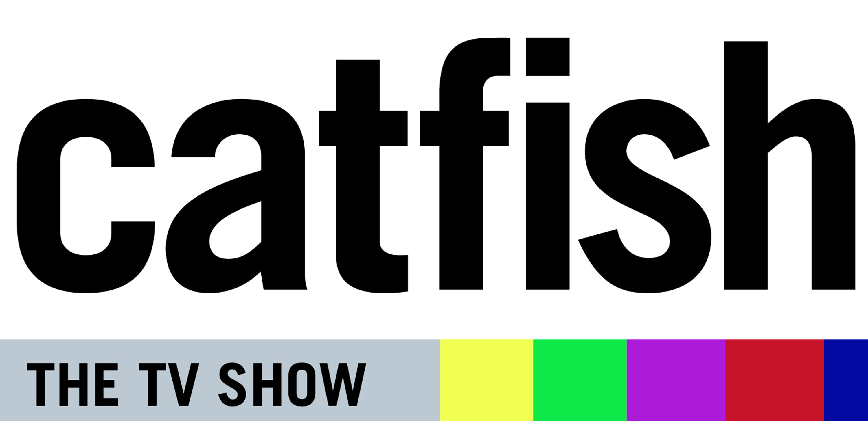 Catfish: the TV Show Logo,is an American reality-based docudrama television series airing on MTV about the truths and lies of online dating.